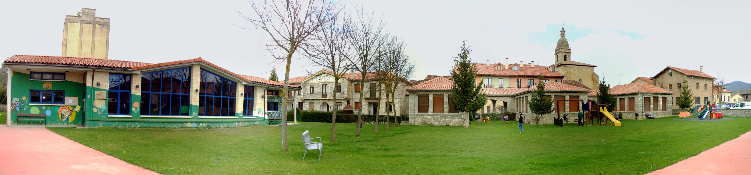 View of Argantzun ikastola, the school of Argantzun (Enclave of Treviño) in Basque language.